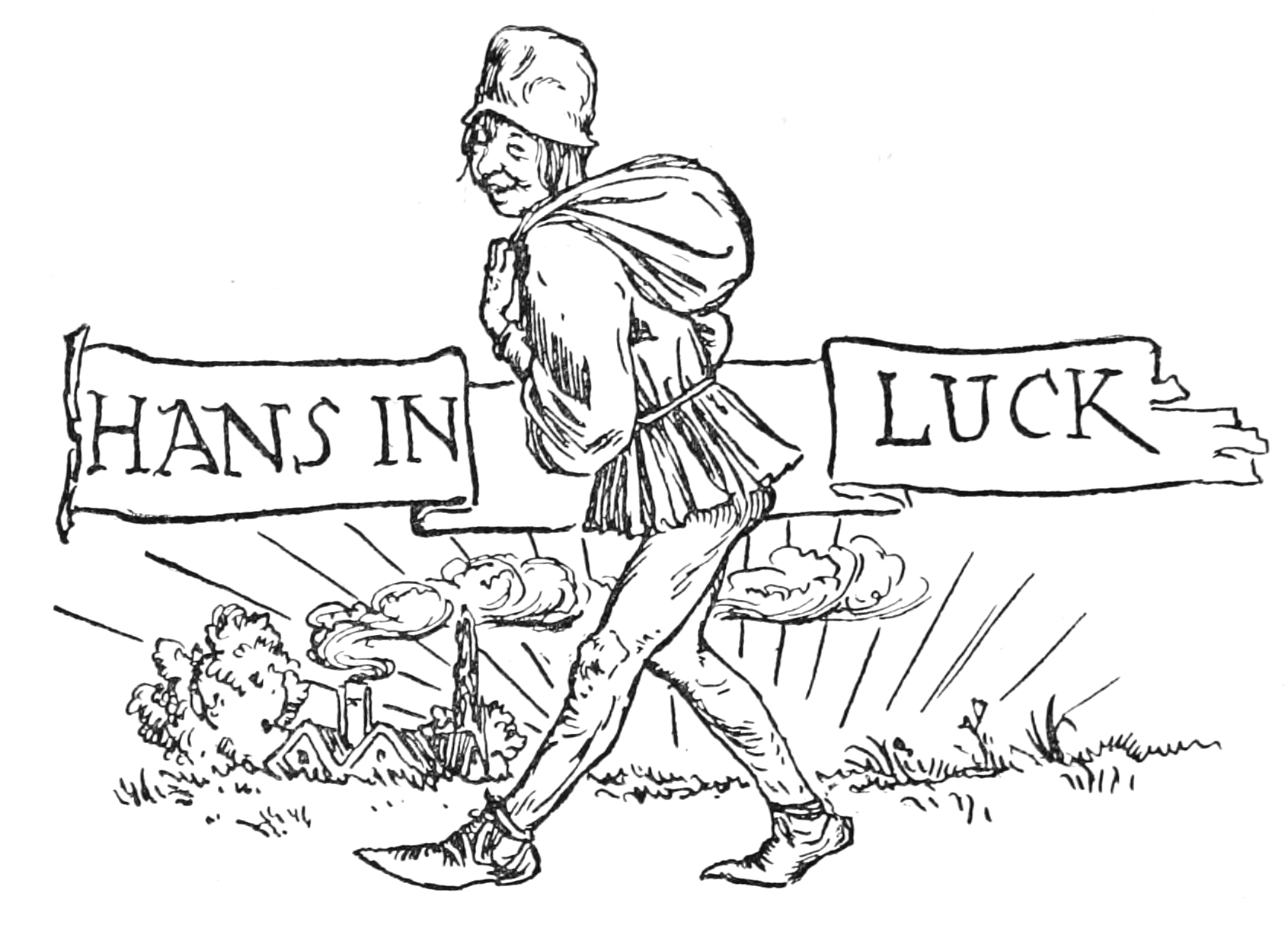 Illustration from a book of fairy tales